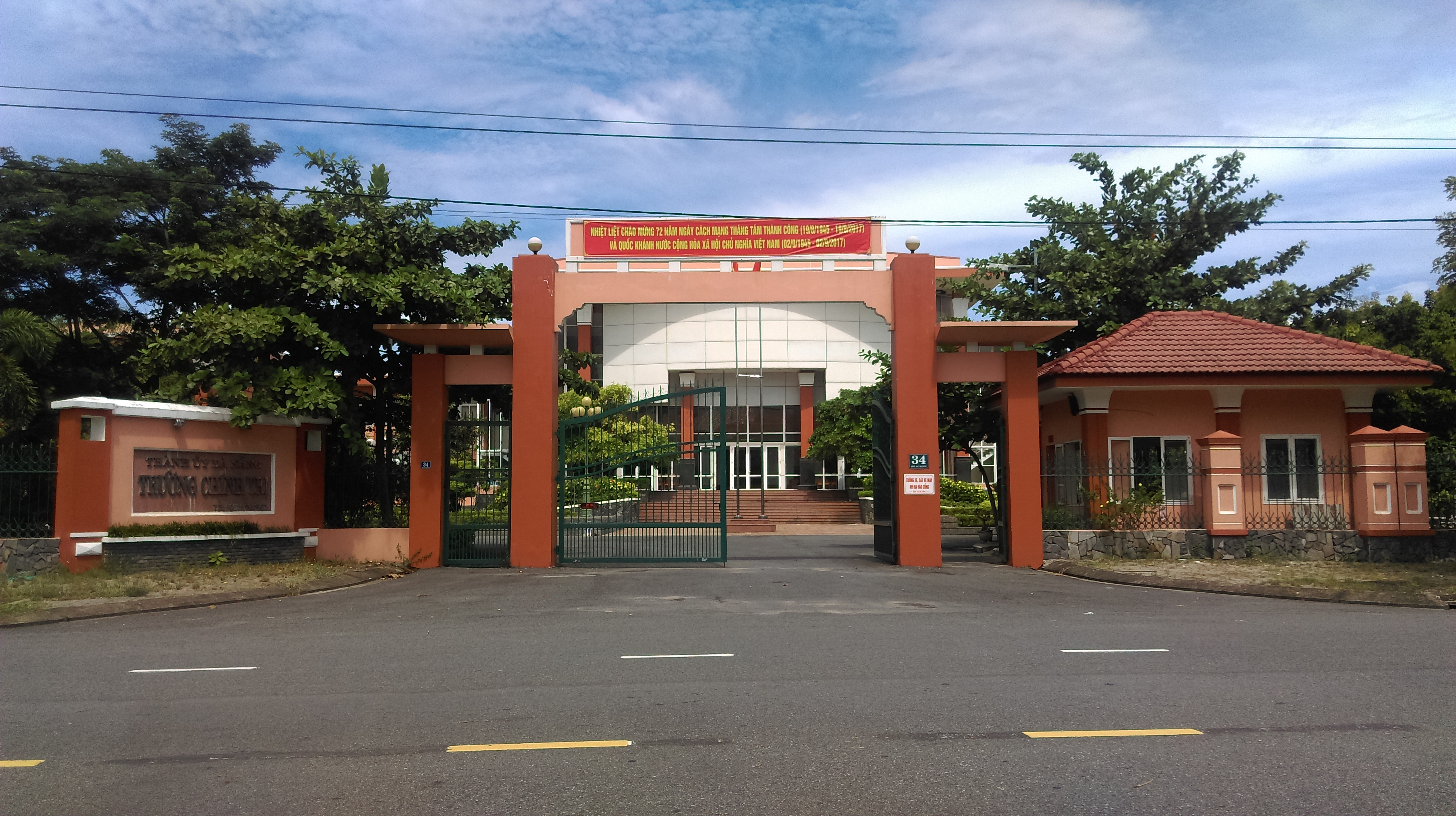 Trường Chính trị Đà Nẵng